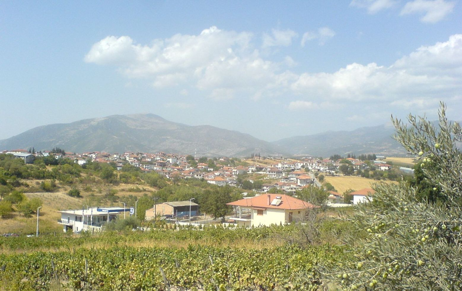 Village of Abelies, Pella prefecture, Greece